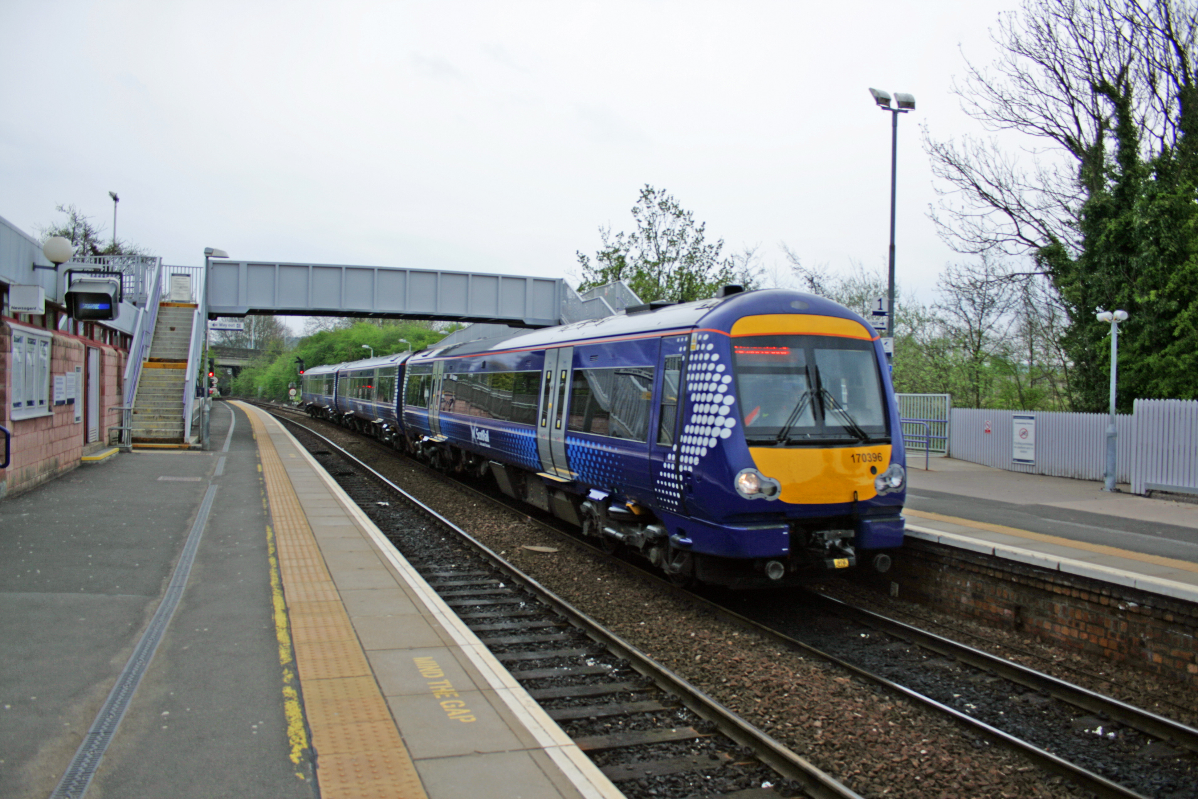 Scotrail Saltire-liveried 170396 pulls into Inverkeithing with a service to Edinburgh Waverley